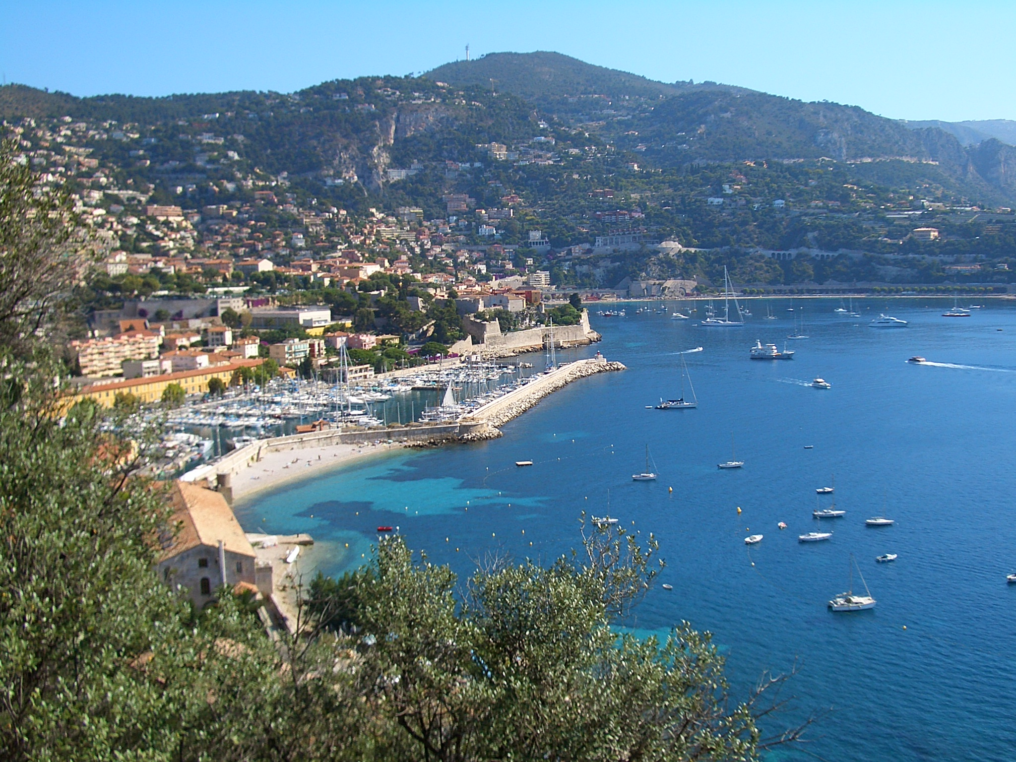 The harbor of Villefranche-sur-Mer